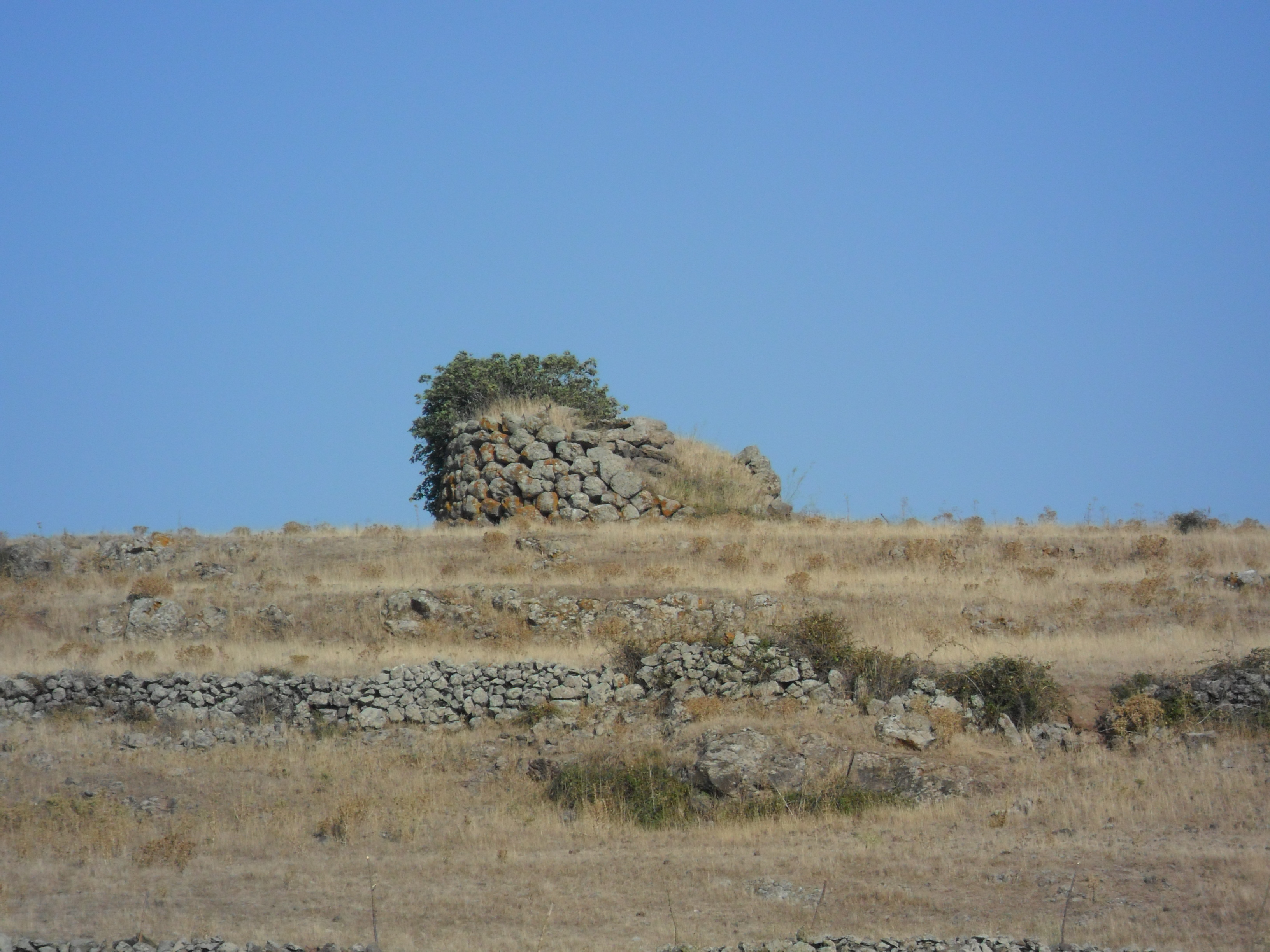 Nuraghe Ruggiu in Pozzomaggiore (SS) in Sardinia, Italy